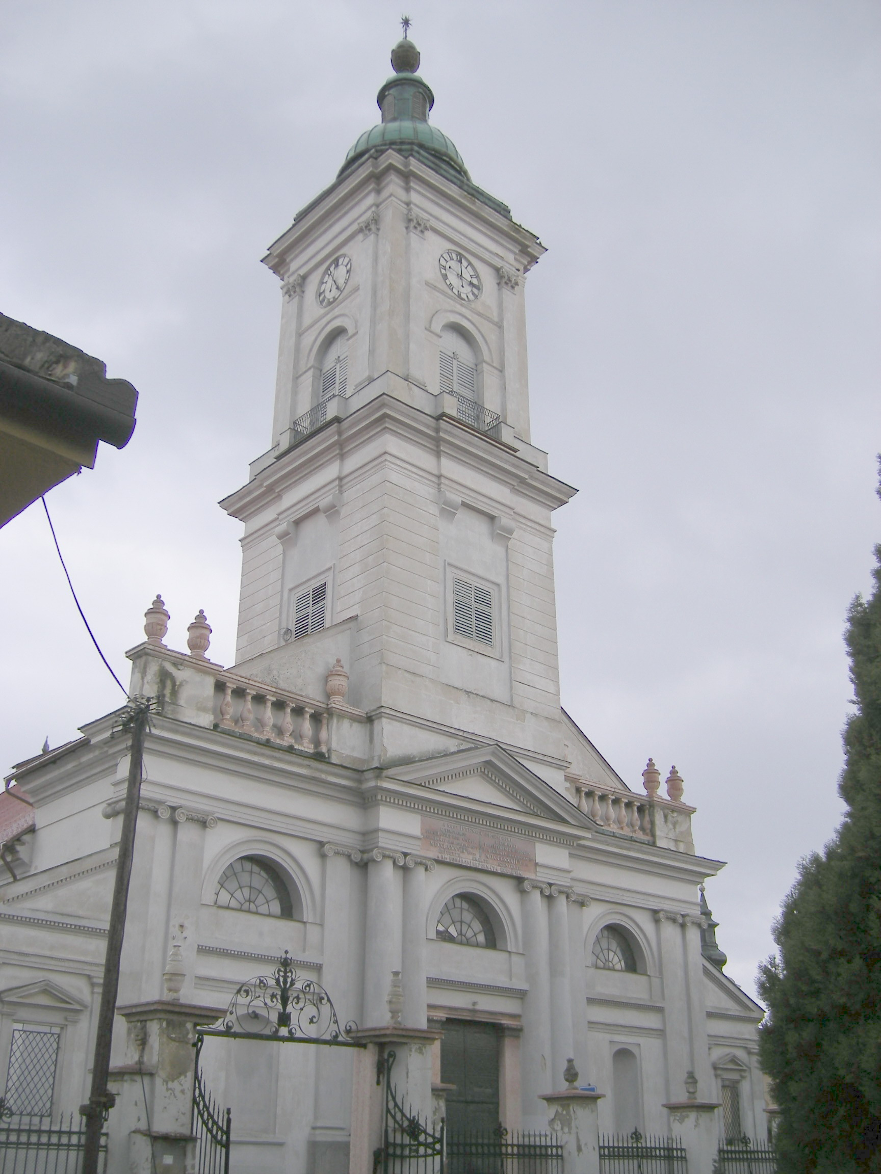 Komárno - reformated church.